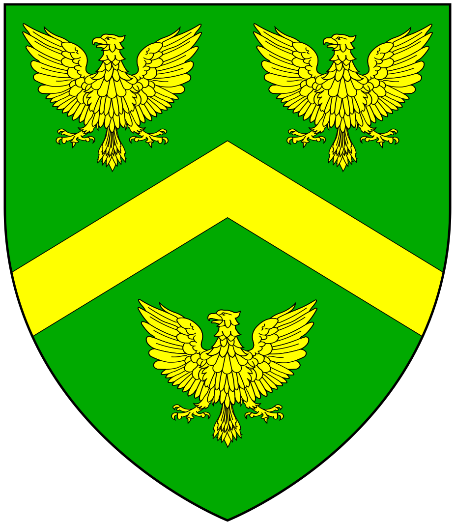 Arms of Fineux: Vert, a chevron between three eagles displayed or. As arms of Sir John Fineux (c.1441-1526), Lord Chief Justice of the King's Bench, displayed on the Christ Church Gate, Canterbury Cathedral, built 1517: (Willement, Thomas, Heraldic Notices of Canterbury Cathedral, 1827, p.2[1])